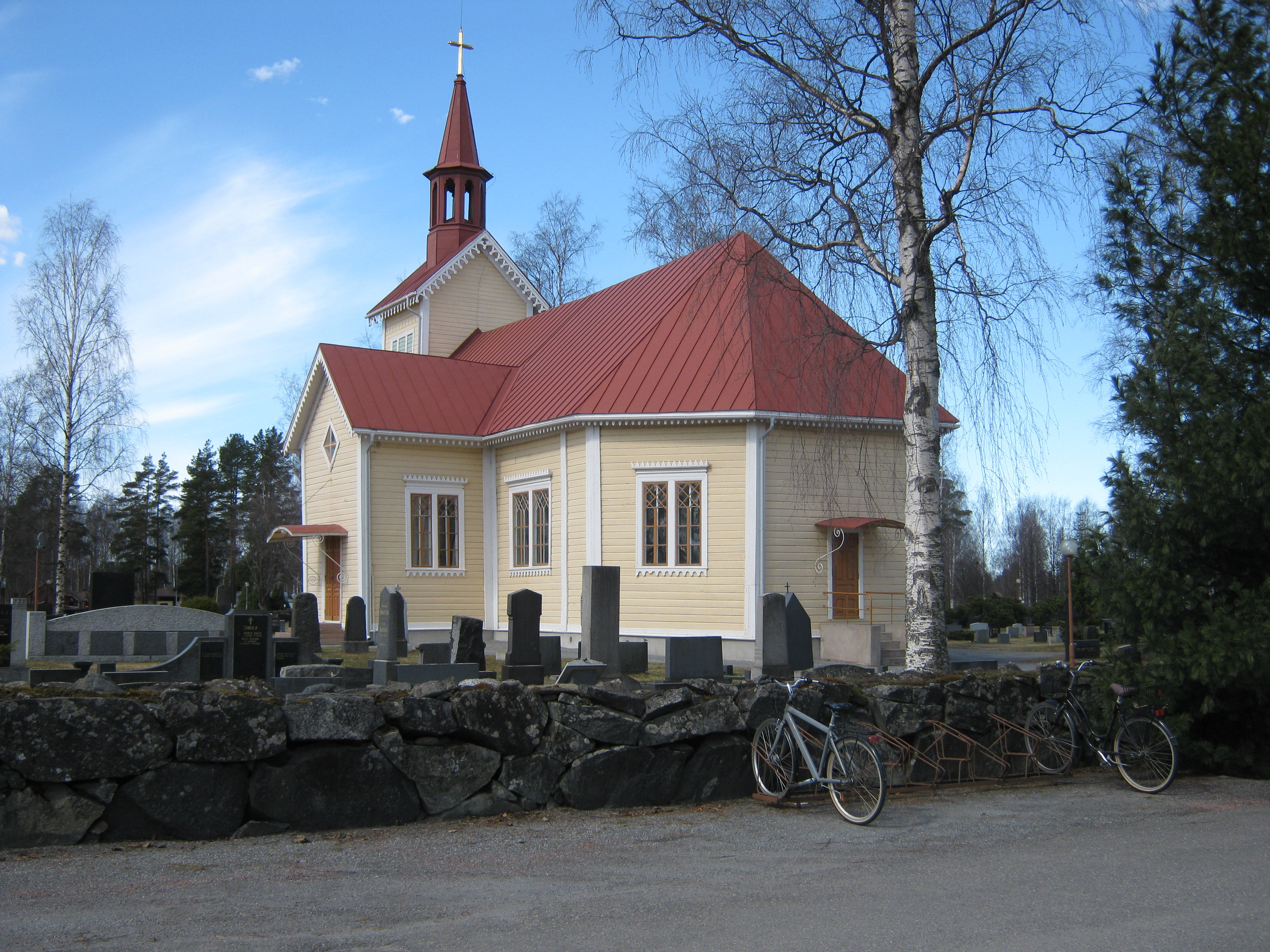 Harjavalta old church, Finland.